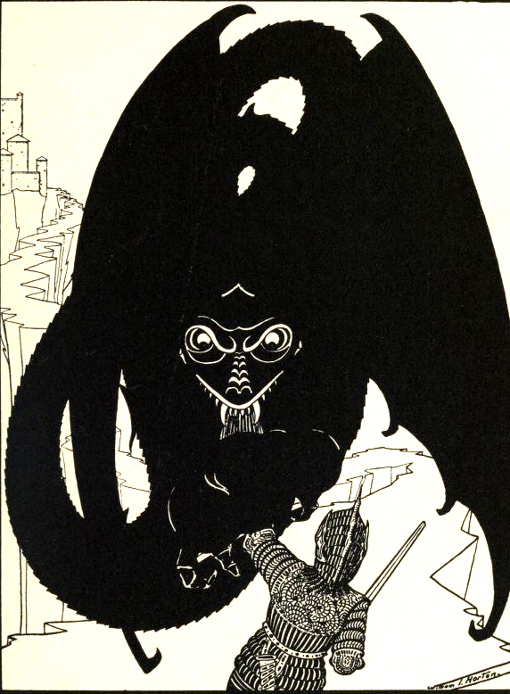 St George, A book of images, 1898, by W.T. Horton (1864-1919), preface by W.B. Yeats (1865-1939).